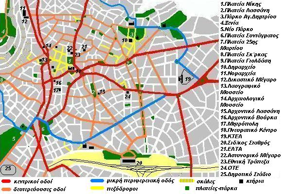 Kozani street map